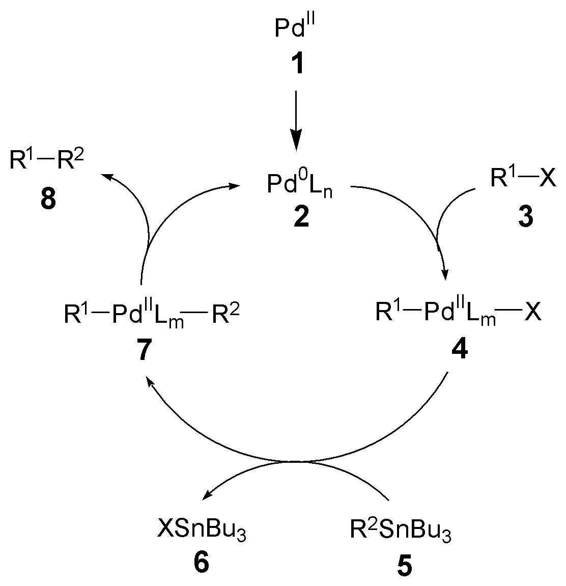 Description: Reaction mechanism of the Stille reaction. Author, date of creation: selfmade by ~K, 26 March 2006. Source: - Copyright: Public domain. (PD) Comments: high-resolution b/w PNG; ChemDraw / The GIMP.